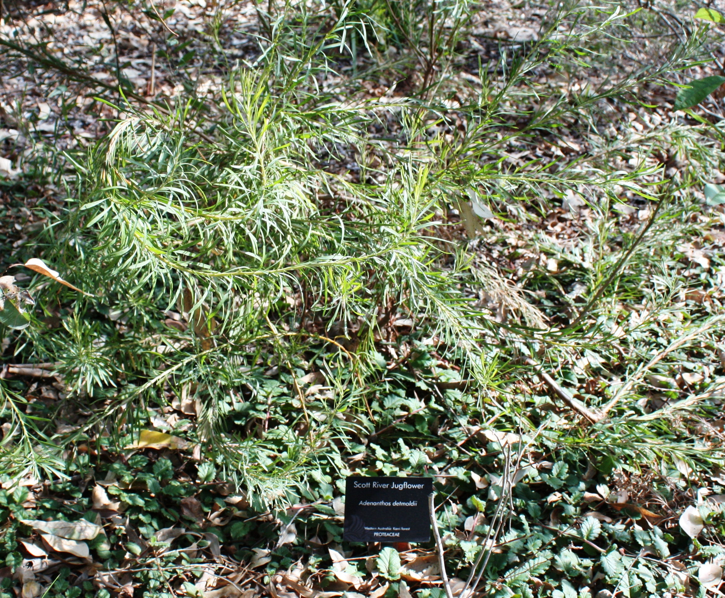 Adenanthos detmoldii (Scott River Jugflower), Kings Park, Perth, Western Australia